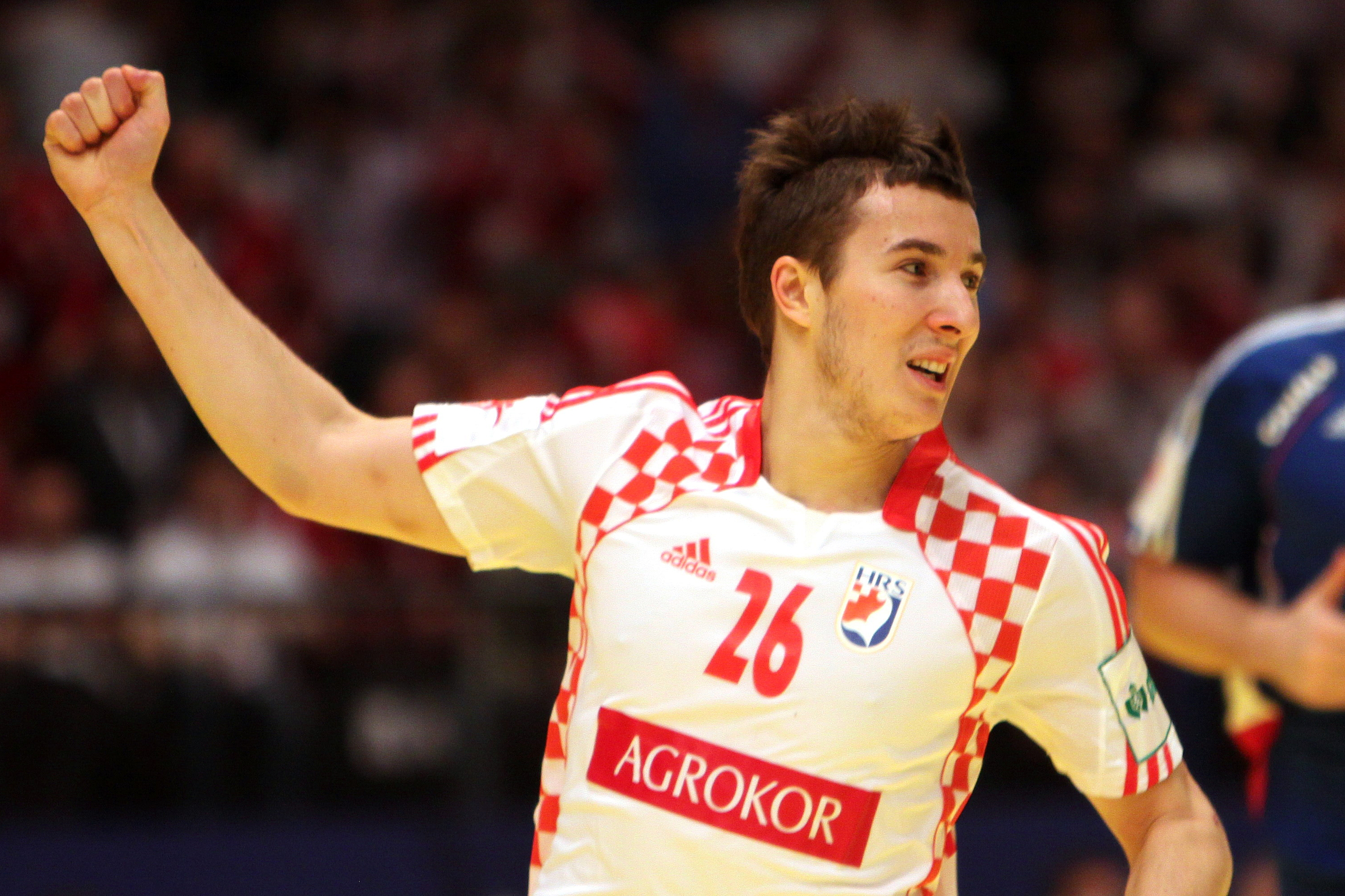 Manuel Štrlek (RK Zagreb), Croatia national handball team